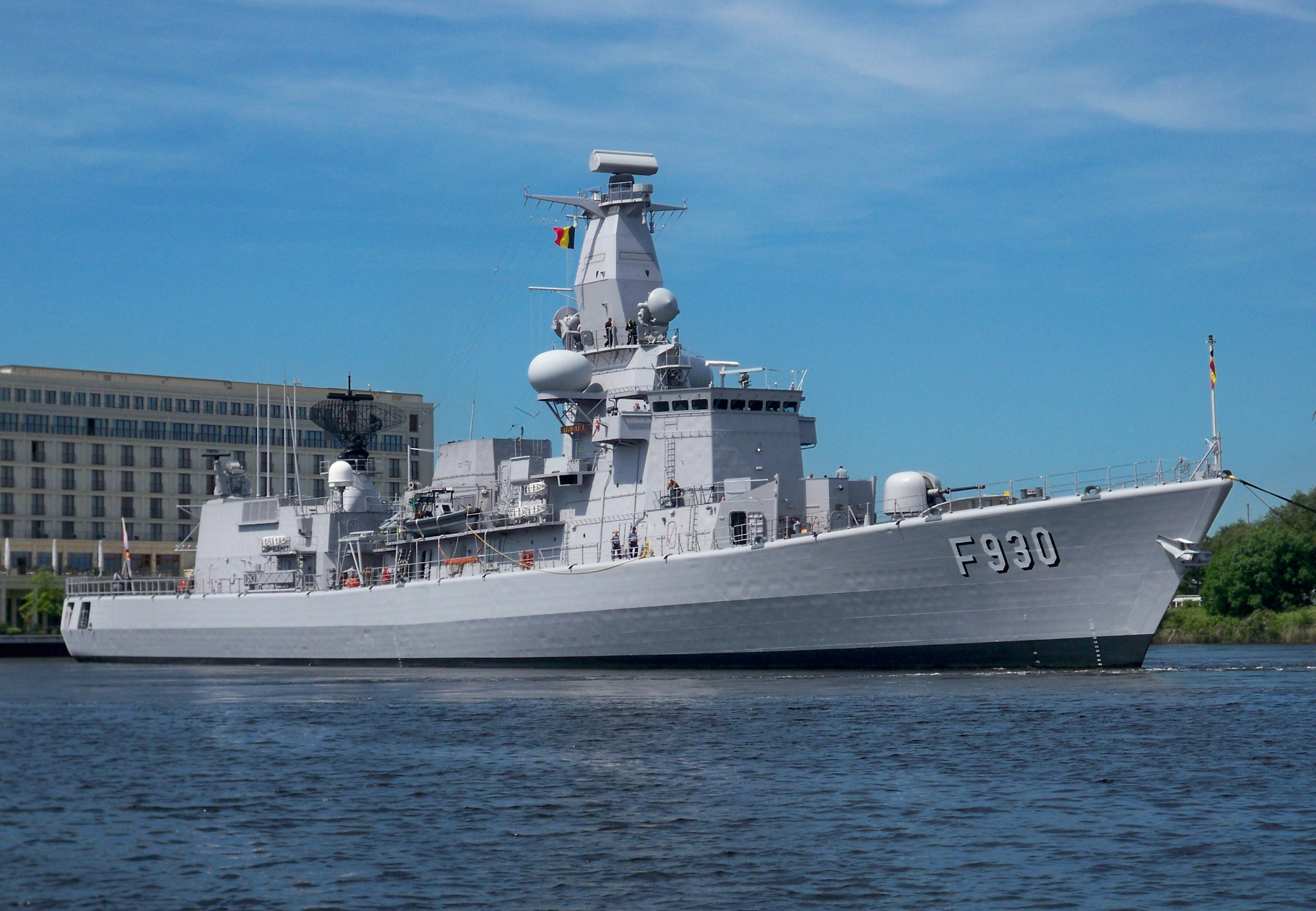 Belgian frigate Leopold I at the deperming range in Wilhelmshaven